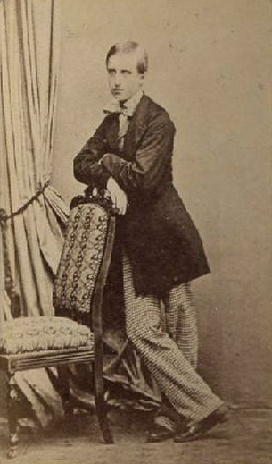 Louis d'Orléans, Prince of Condé